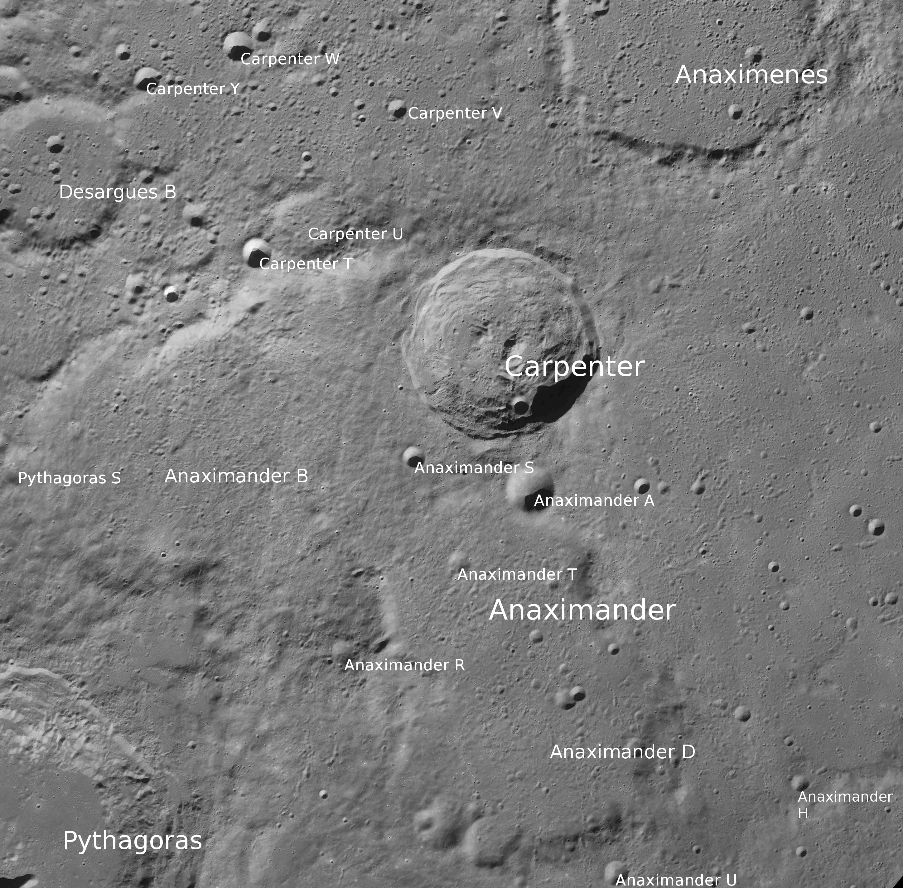 Moon craters Carpenter and Anaximander with satellite features (north at top; detail of LRO - WAC north pole mosaic)